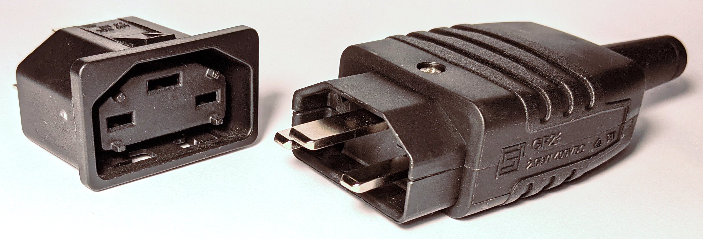 IEC TS 62735 connectors used for carrying DC power at a maximum of 2.6 kW and 400 volts DC. A 5.2 kW version is also available (not shown here) which the male plug shown here is able to mate with.